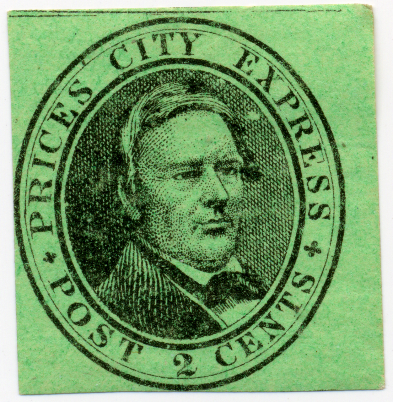 1858, local Price's City Express 2-cent US postage stamp, imperforate, Scott #119L3 (black on green).